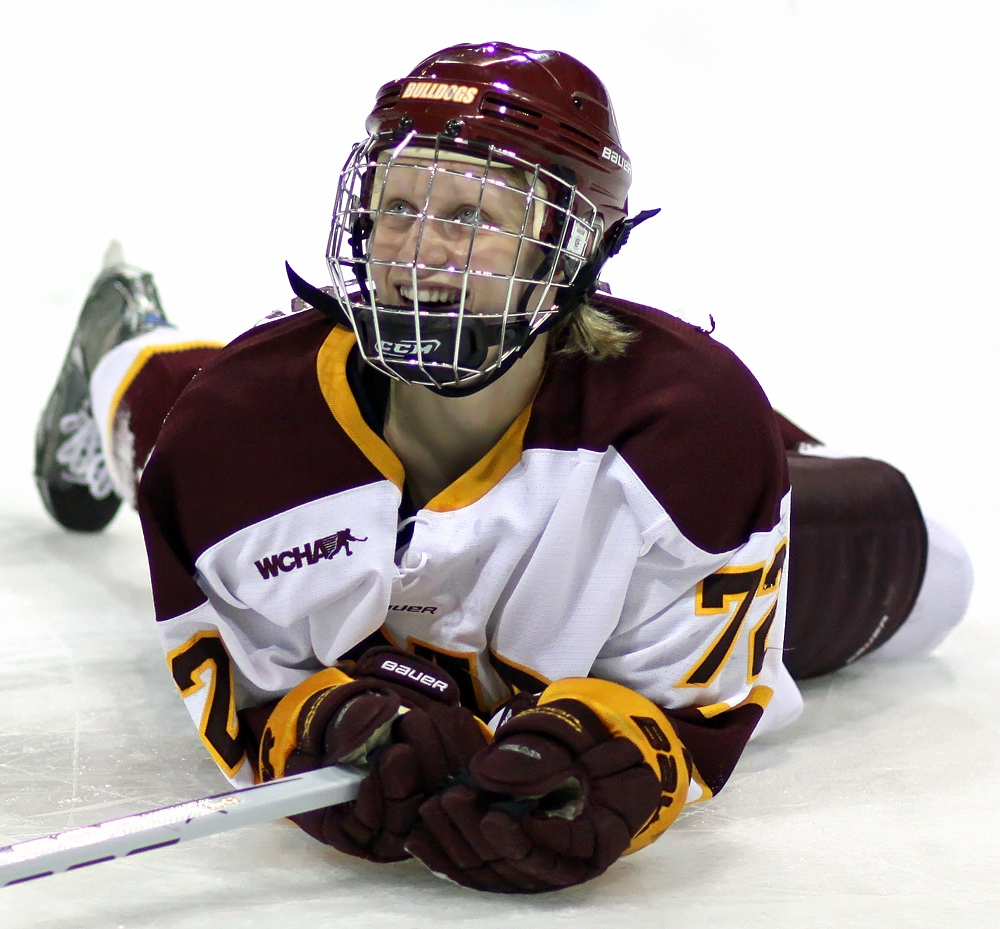 UMD Bulldogs forward Elin Holmlov, Feb. 19, 2011